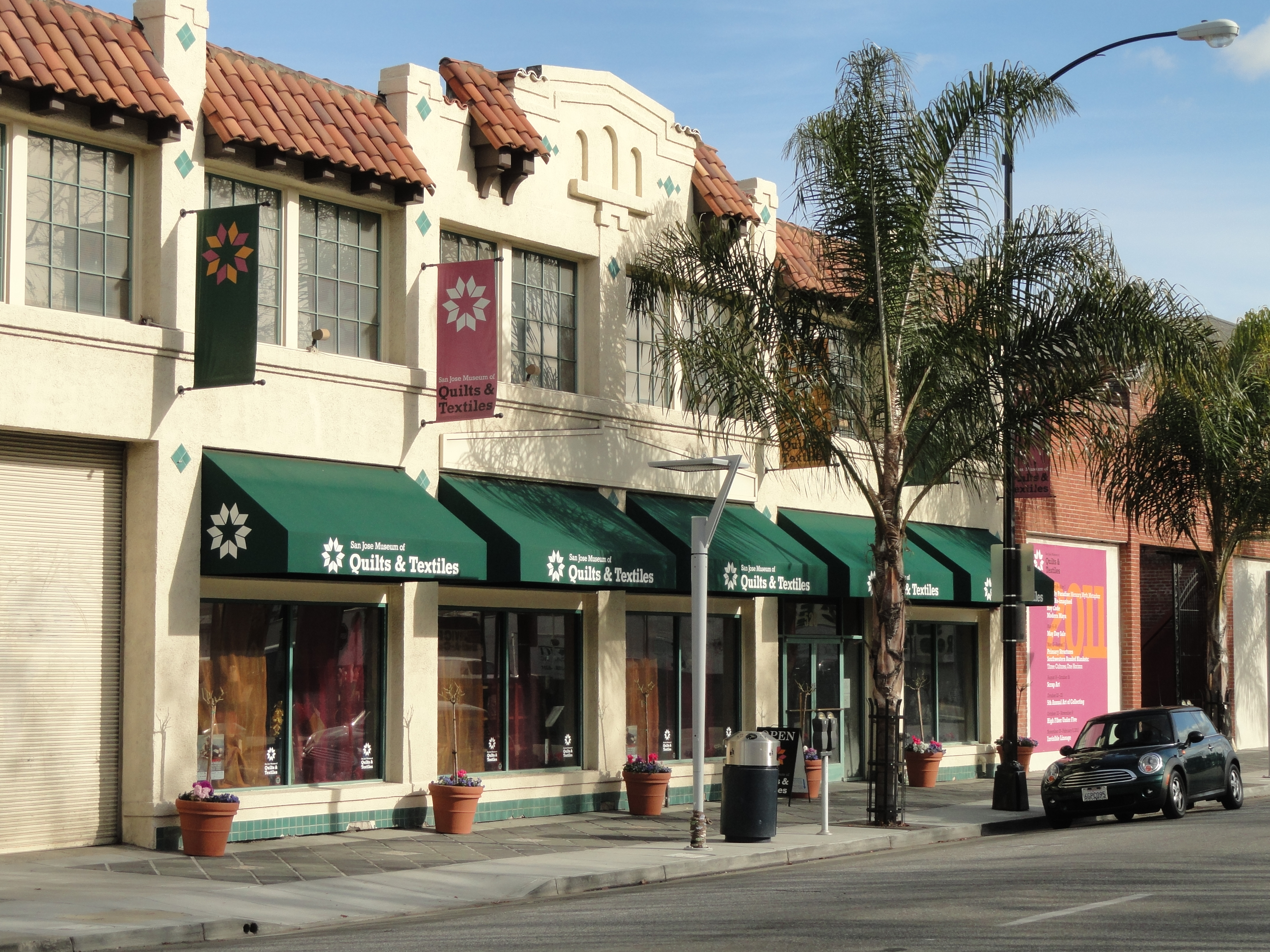 San Jose Museum of Quilts & Textiles, 520 South 1st Street, San Jose, California, USA.